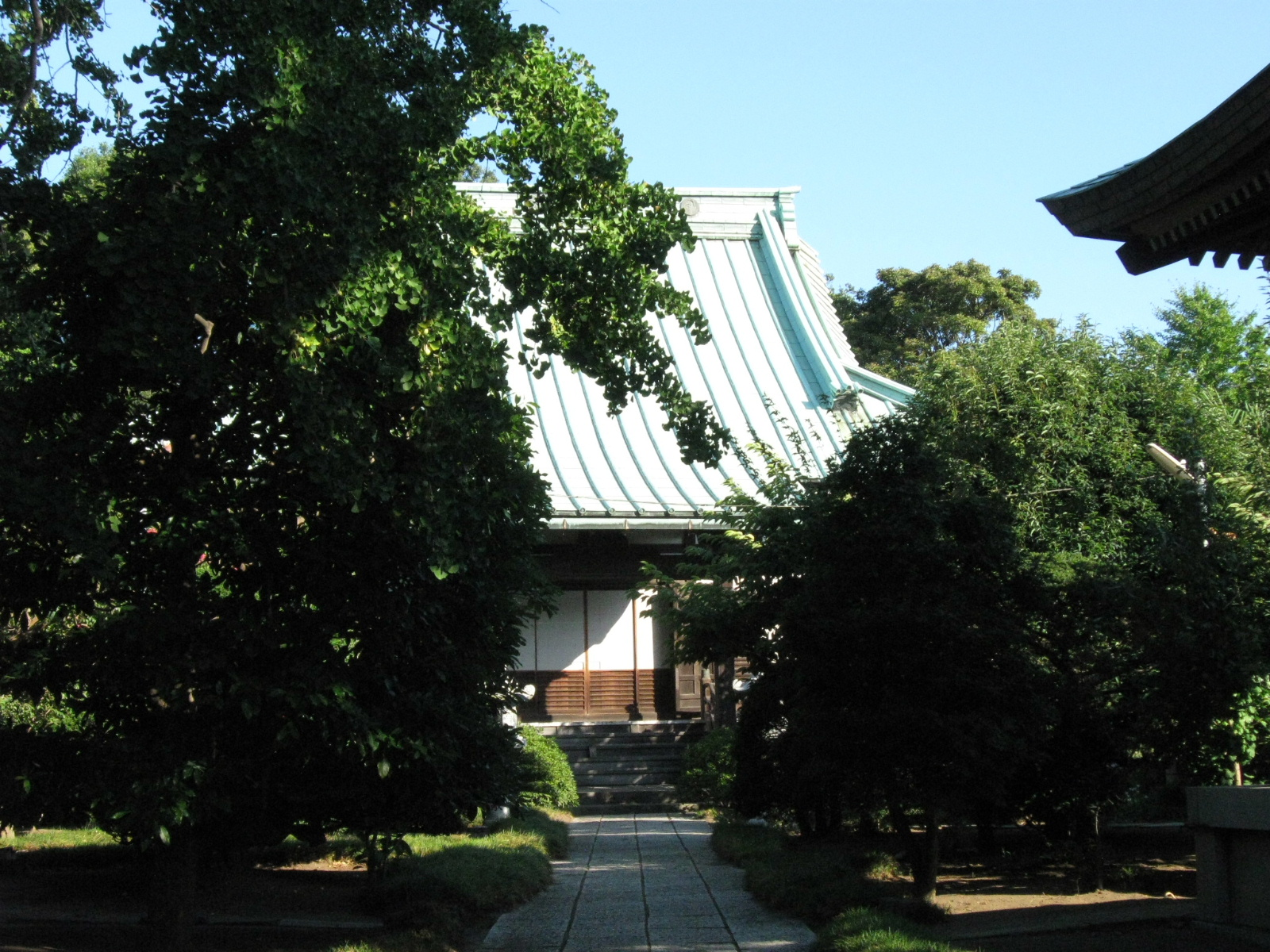 Eishō-ji's Main Hall in Fujisawa City, Kanagawa Prefecture, Japan